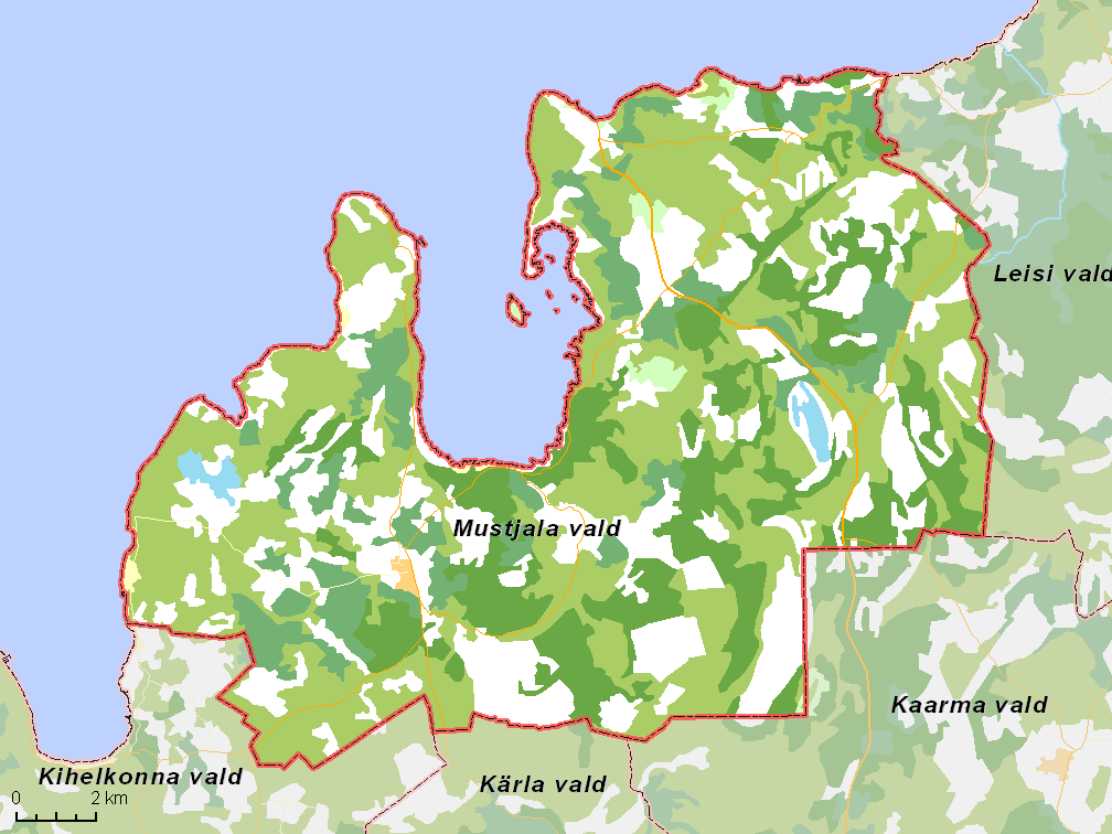 Map of municipality in Estonia